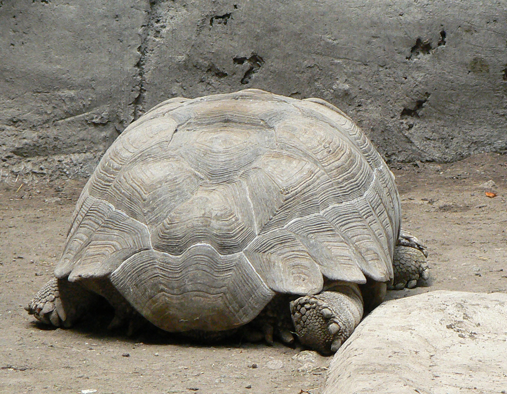 Geochelone sulcata (african tourtle)from the zoo in mexico city